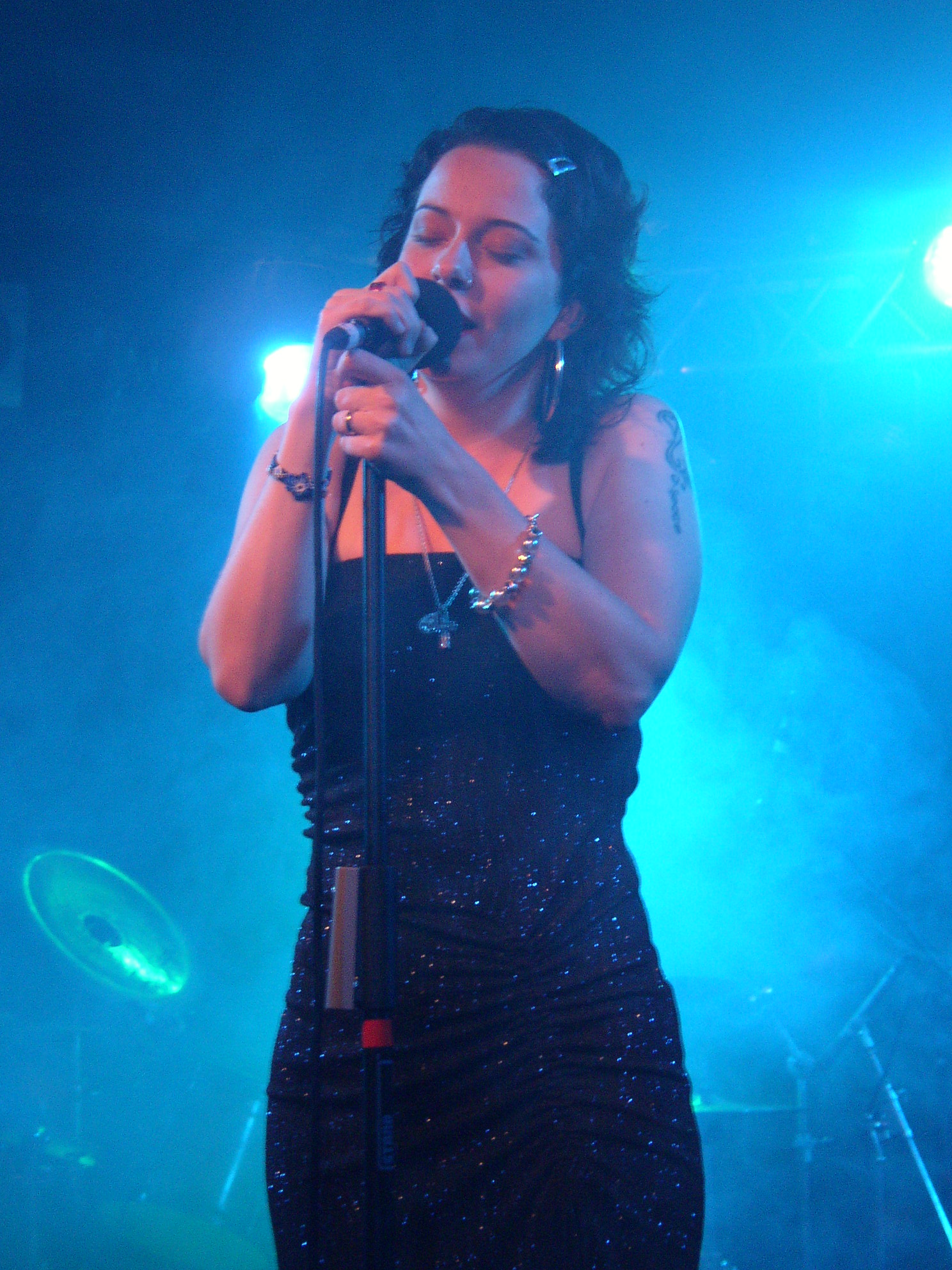 The Gathering live in 2004